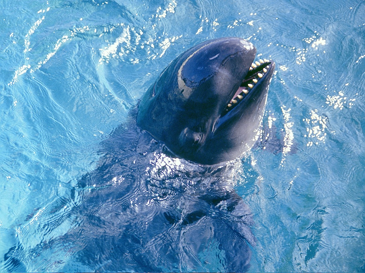 False Killer Whale (Pseudorca crassidens) looking at the photographer; Sea Life Park, Hawaii, Sept. 1993.